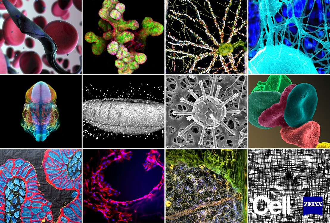 2013 was the third year of the Cell Picture Show, and a memorable one at that. With 11 new collections of stunning images, the team at Cell Press and our colleagues in the community partnered to further the mission of presenting the most compelling imagery in microscopy, bioscience data, and scientifically based art. Visit bit.ly/cell-2013 and enjoy the collection! Images donated as part of a GLAM collaboration with Carl Zeiss Microscopy - please contact Andy Mabbett for details.